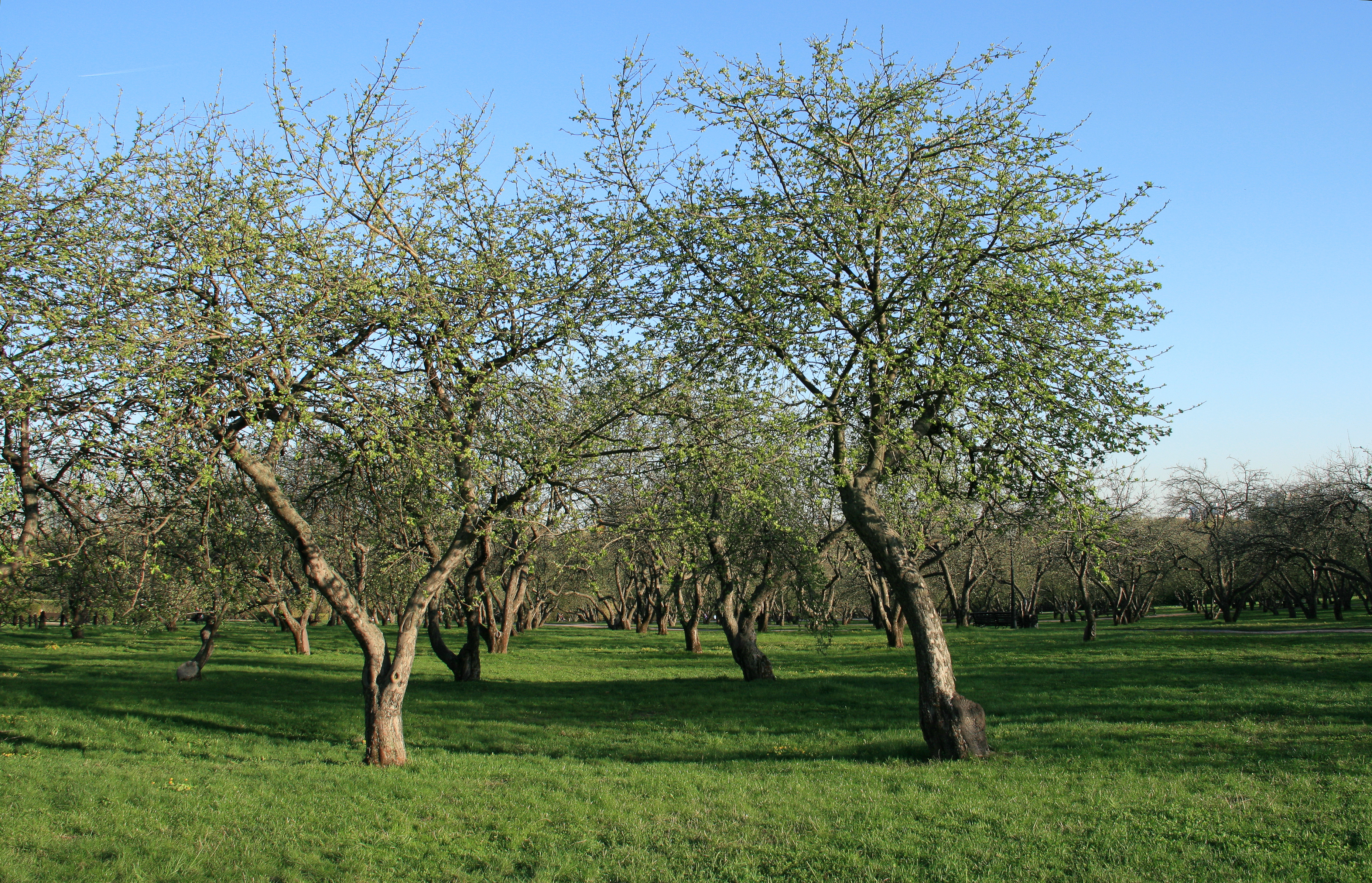 Ascension Garden in Kolomenskoe, Moscow, Russia This image is related to the protected area of Russia number 7710579